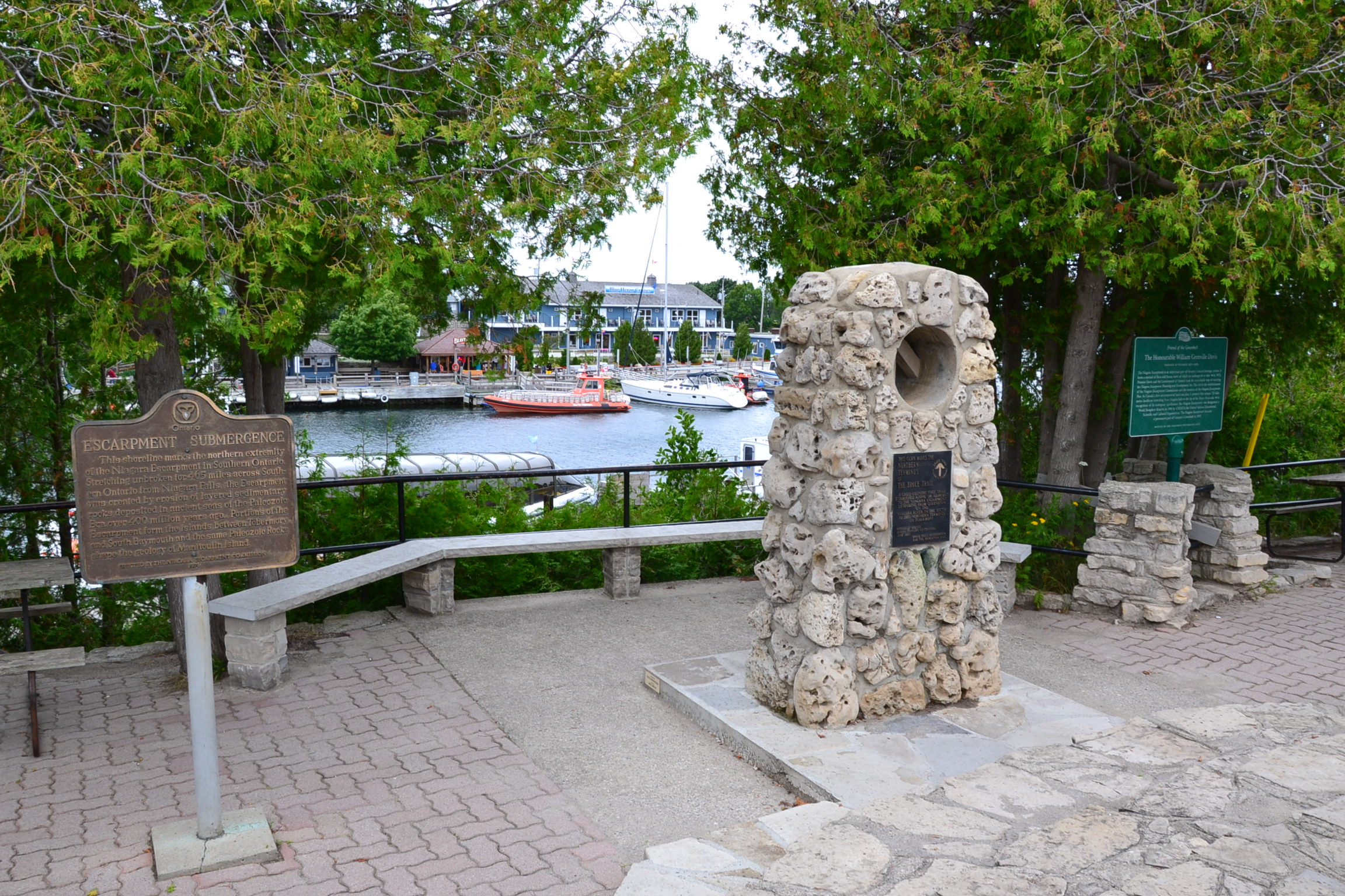 End of the Bruce Trail in Tobermory (Ontario, Canada)